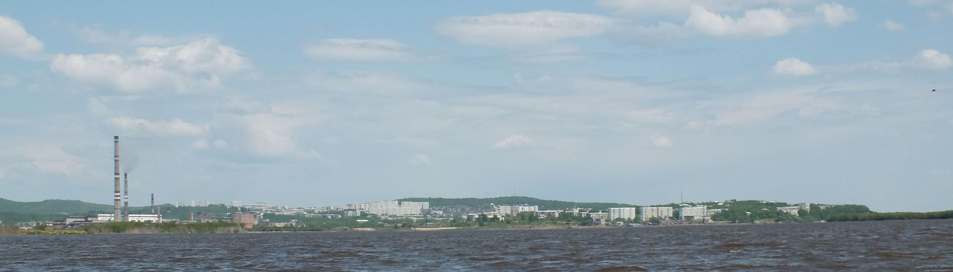 Amursk